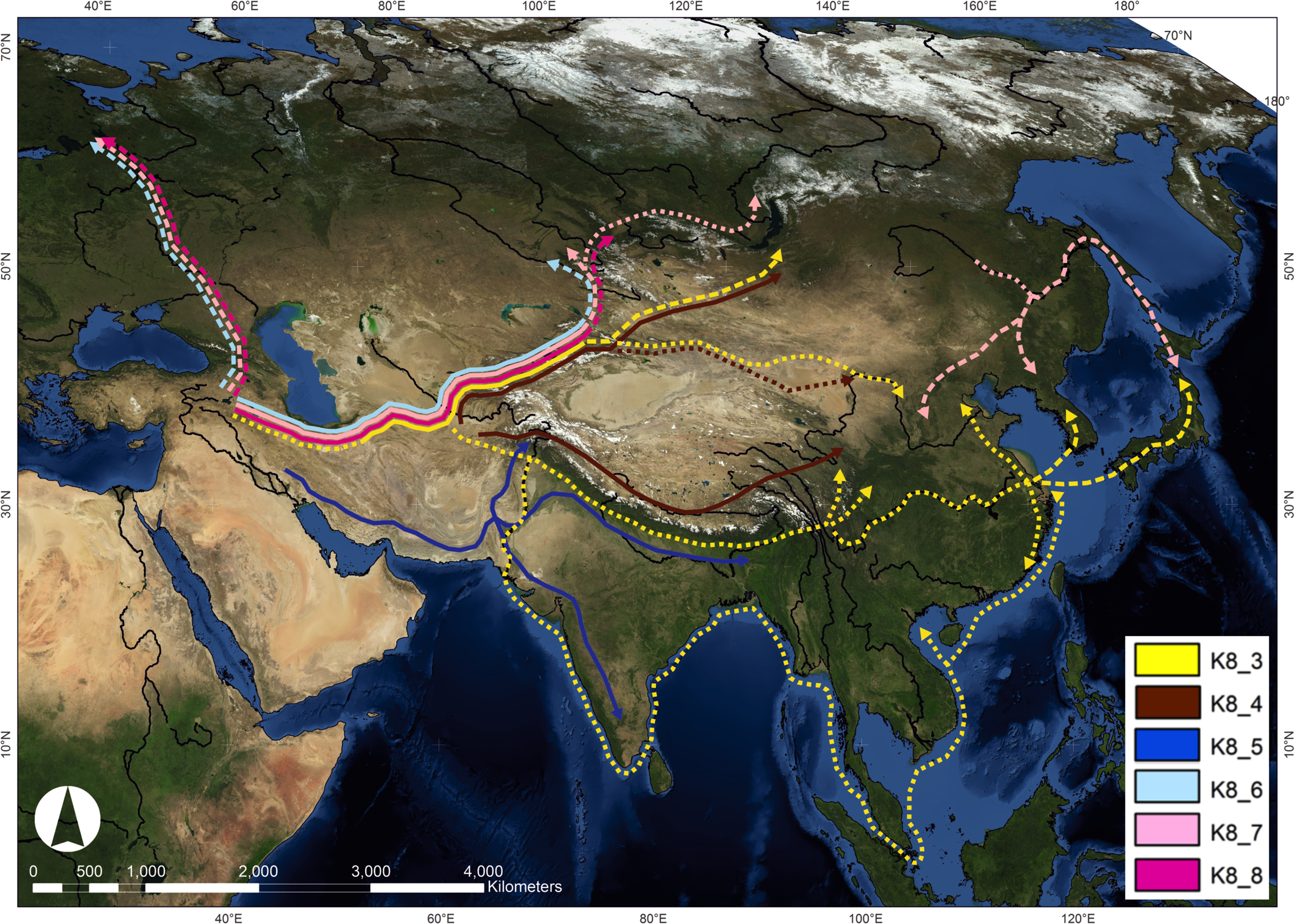 Genetic analysis on the spread of barley from 9000 to 2000 BCE